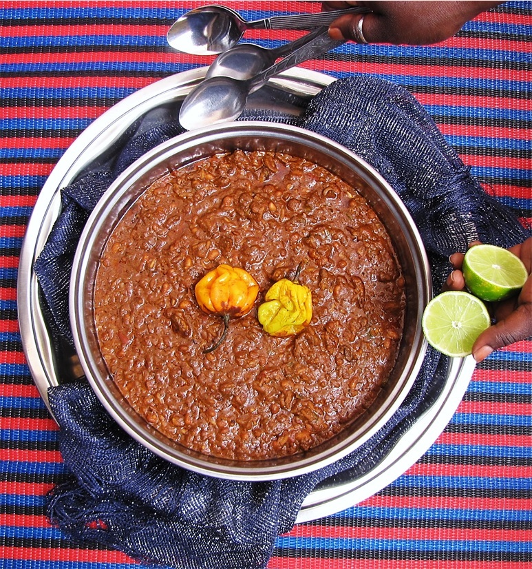 Defining this traditional Senegalese sauce: peanut butter and fermented tamarind seed pods,'yokhos' (dried oysters) and 'touffa' dried whelk; plus green onion, garlic, onion, dried black pepper, dried red capsicum, fresh green bell pepper, red and yellow peppers (Capsicum chinense), tomato paste, fresh tomatoes, fermented locust bean (Parkia biglobosa), dry beans. Includes meat (as available), peanut oil (or any other cooking oil as available), salt to taste. Shared from a communal bowl, eaten with the hand or with a spoon, set on a very popular style of plastic woven mat available in Senegal markets. Quantity shown served over ten people.